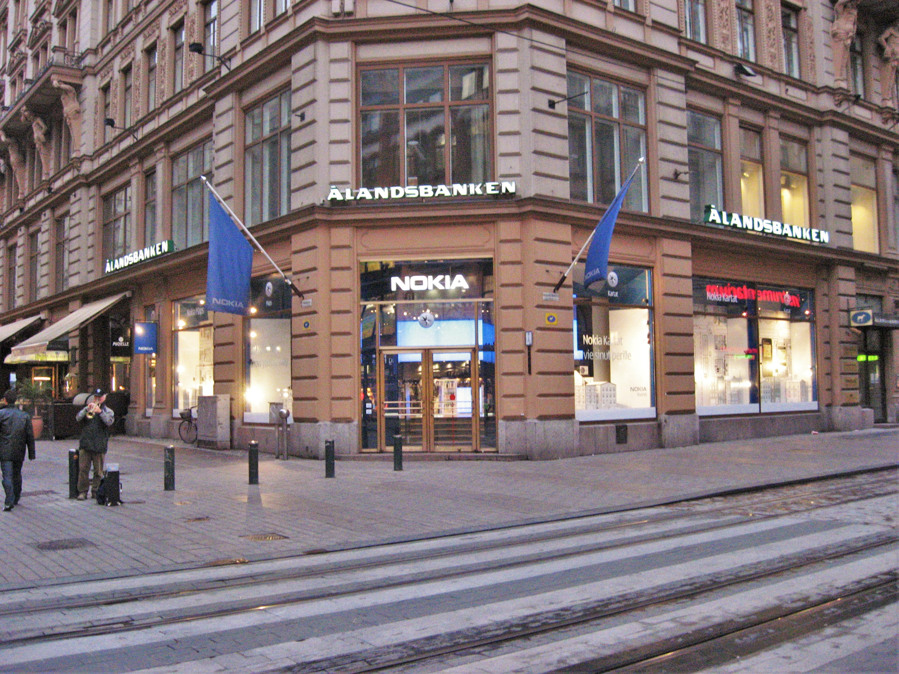 The Bank of Åland uses a stylized letter Å in its logotype.